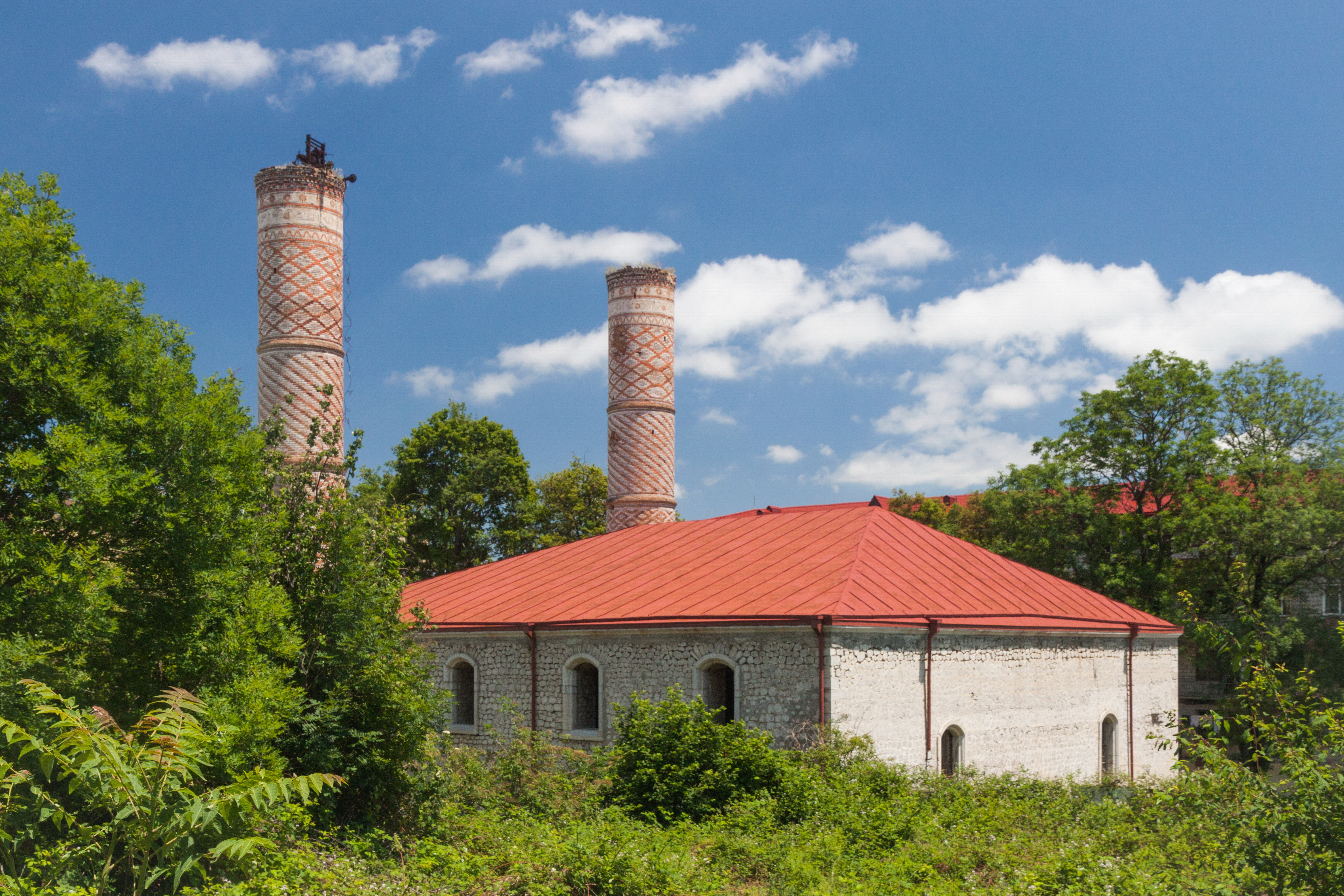 Yukhari Govhar Agha Mosque. Shushi/Shusha, Nagorno-Karabakh.